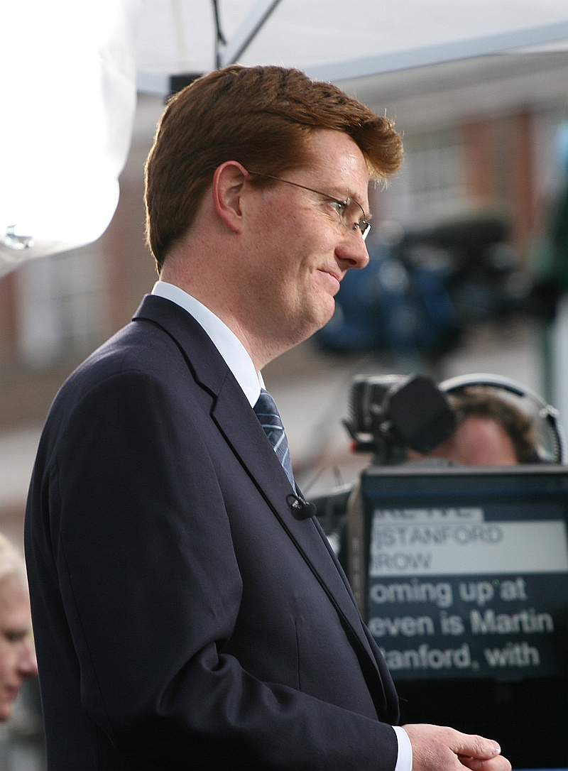 Danny Alexander, Liberal Democrat MP for Inverness, Nairn, Badenoch and Strathspey and Chief Secretary to the Treasury.